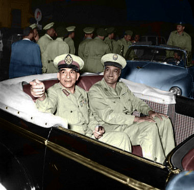 President Mohamed Nageeb with Nasser